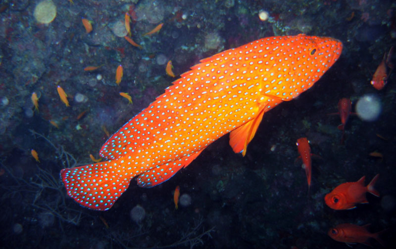 Cephalopholis_miniata